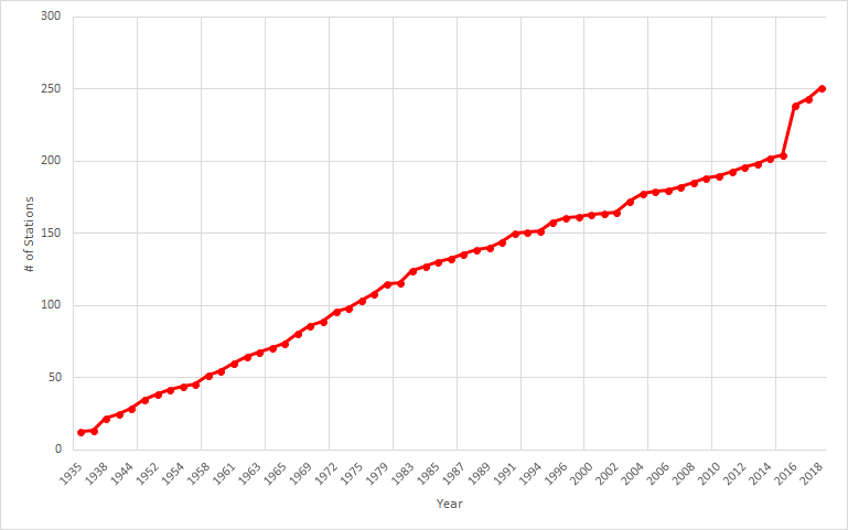 of Moscow Metro Stations opened over time as listed in